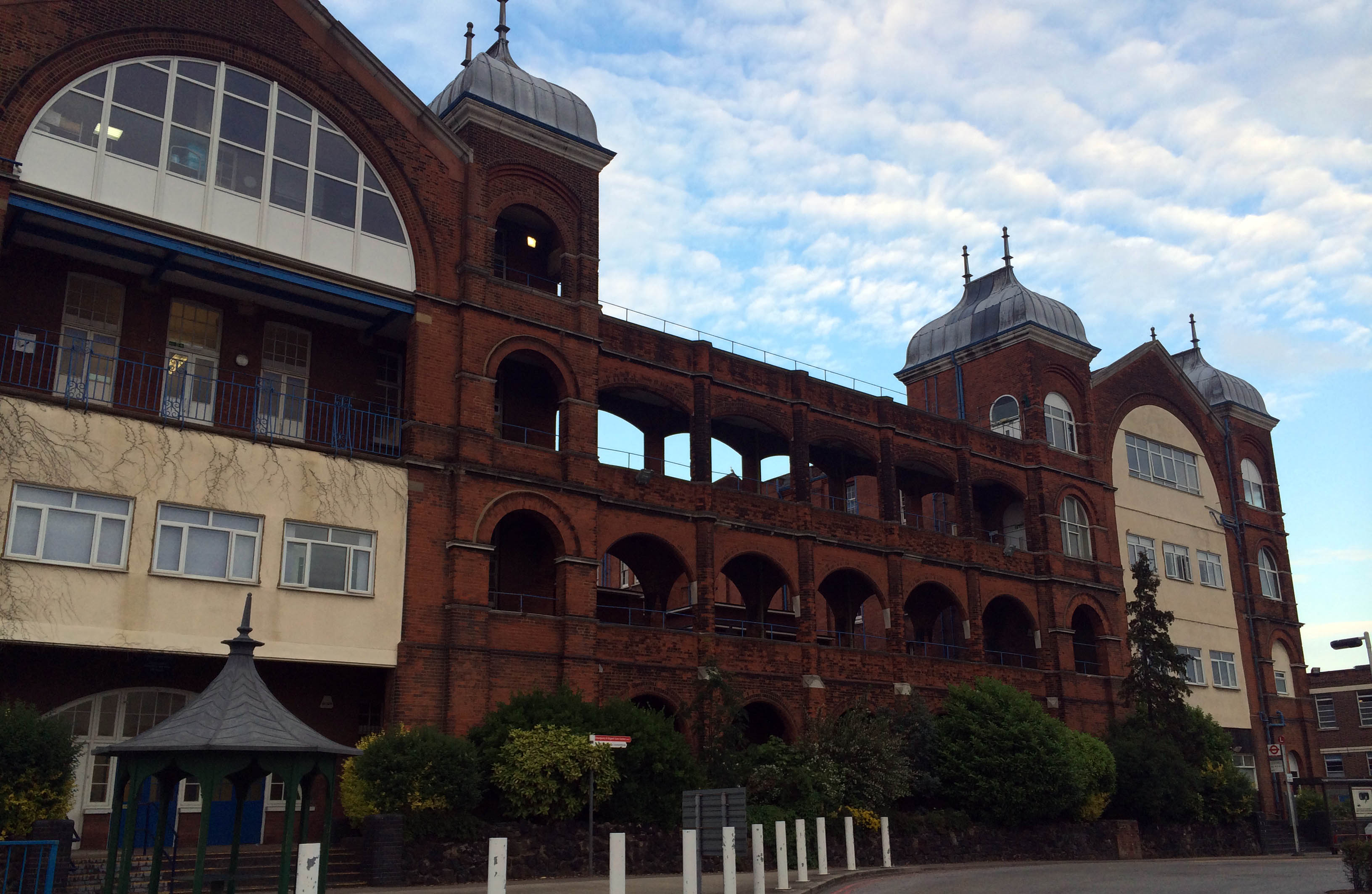 Old main building at Whipps Cross Hospital in Leytonstone